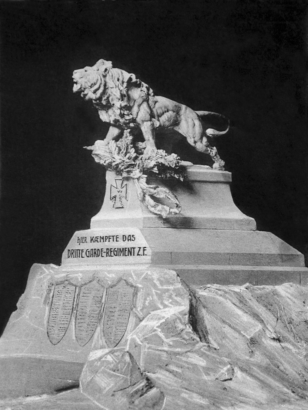 German monument to the Battle of Saint-Privat (French name) or battle Gravelotte (German name)